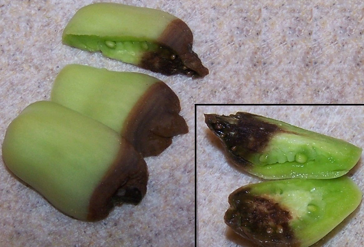 Close up of Blossom-end rot in tomato; due to low calcium concentration in fruit; dissection